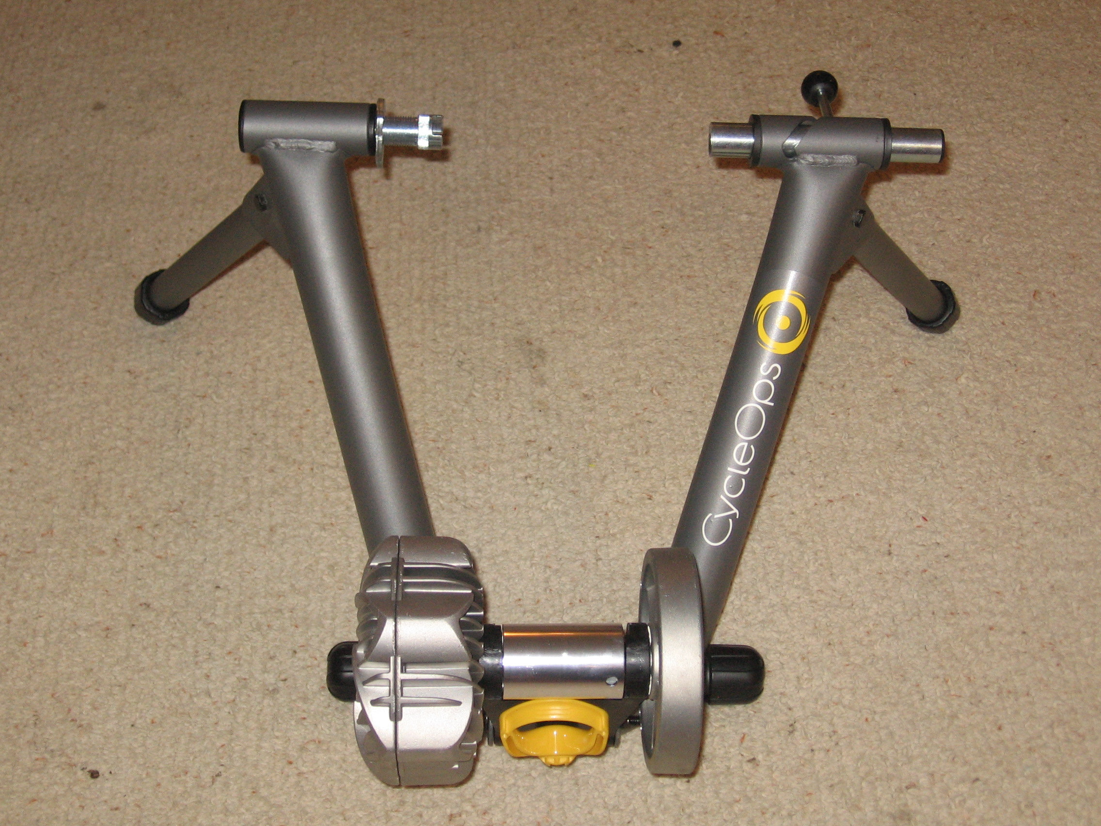 A fluid bicycle trainer from CycleOps. The model is a 'Fluid 2'.